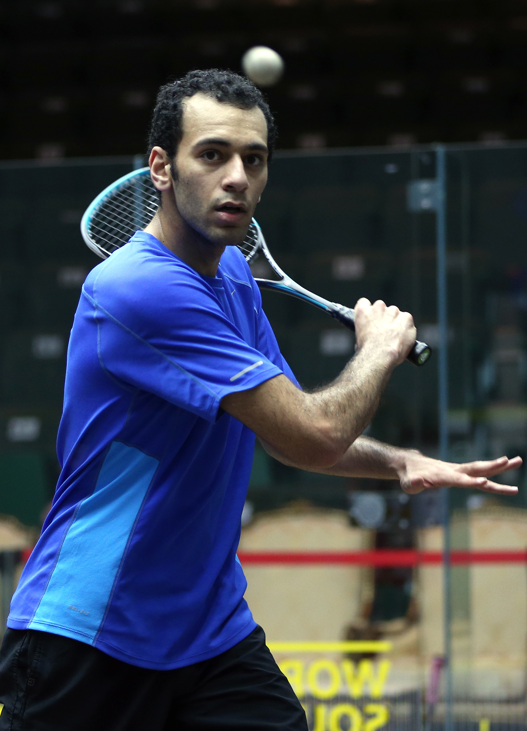 Egyptian squash player Marwan El Shorbagy in action in Doha.